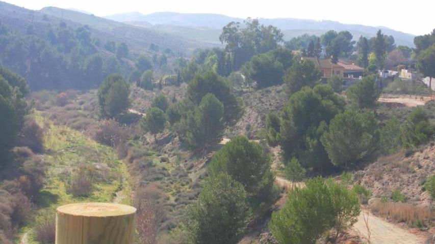 Vista del paraje natural de la Rambla Salada en Las Torres de Cotillas.